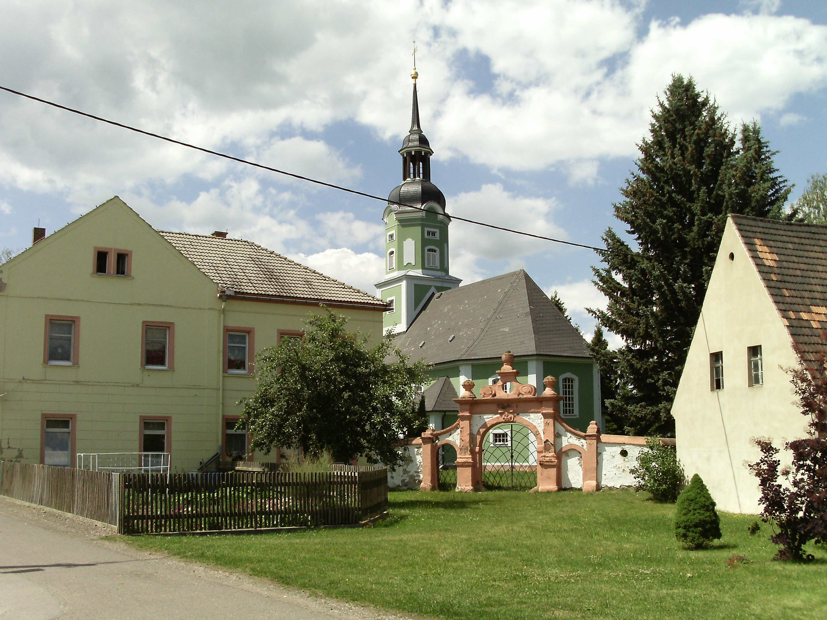 Elbisbach church with eastern portal of the churchyard (Frohburg, Leipzig district, Saxony)